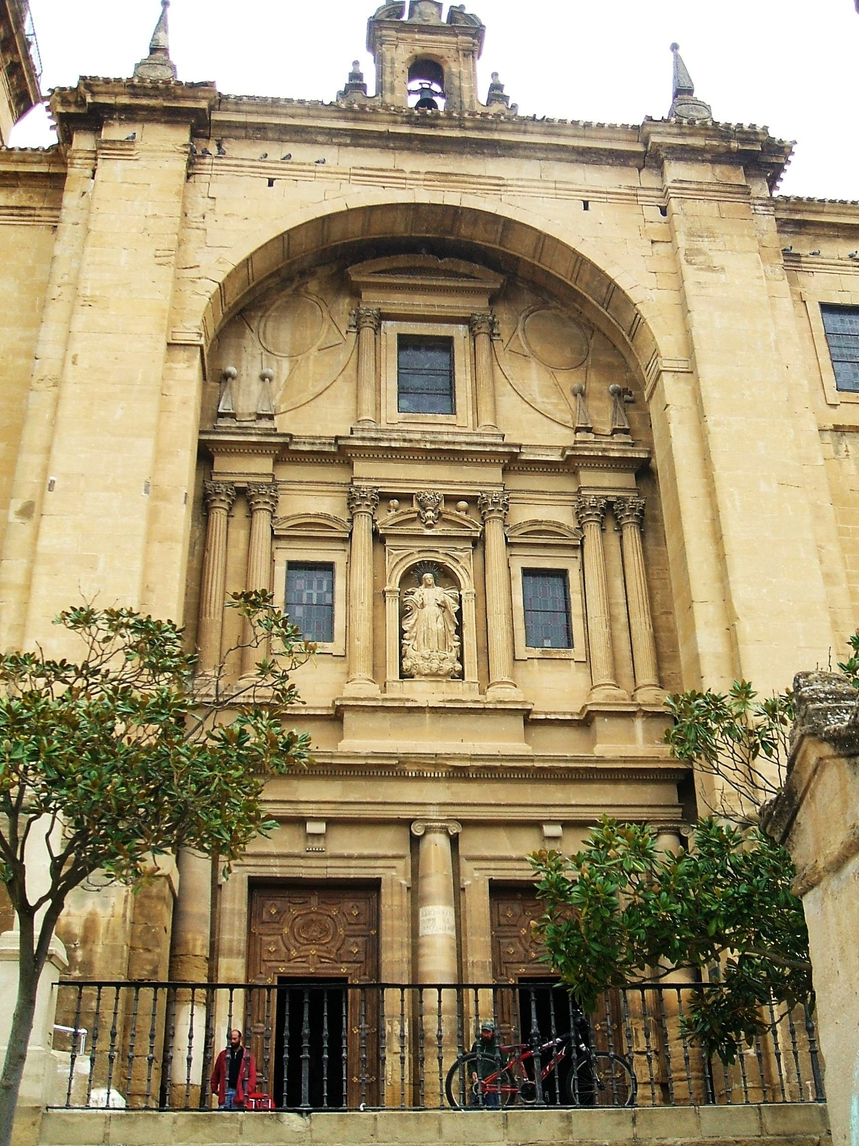 Portada de la iglesia de N. S. de la Asunción de Labastida (Álava, País Vasco, España)